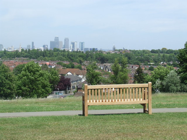 Blythe Hill Fields, SE6